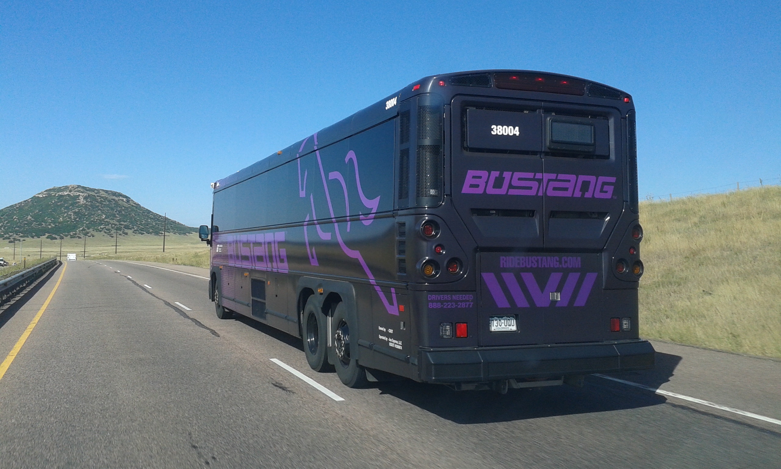 Bustang bus headed northbound on I-25 approaching Larkspur, Colorado. Rattlesnake Butte is seen in the background.